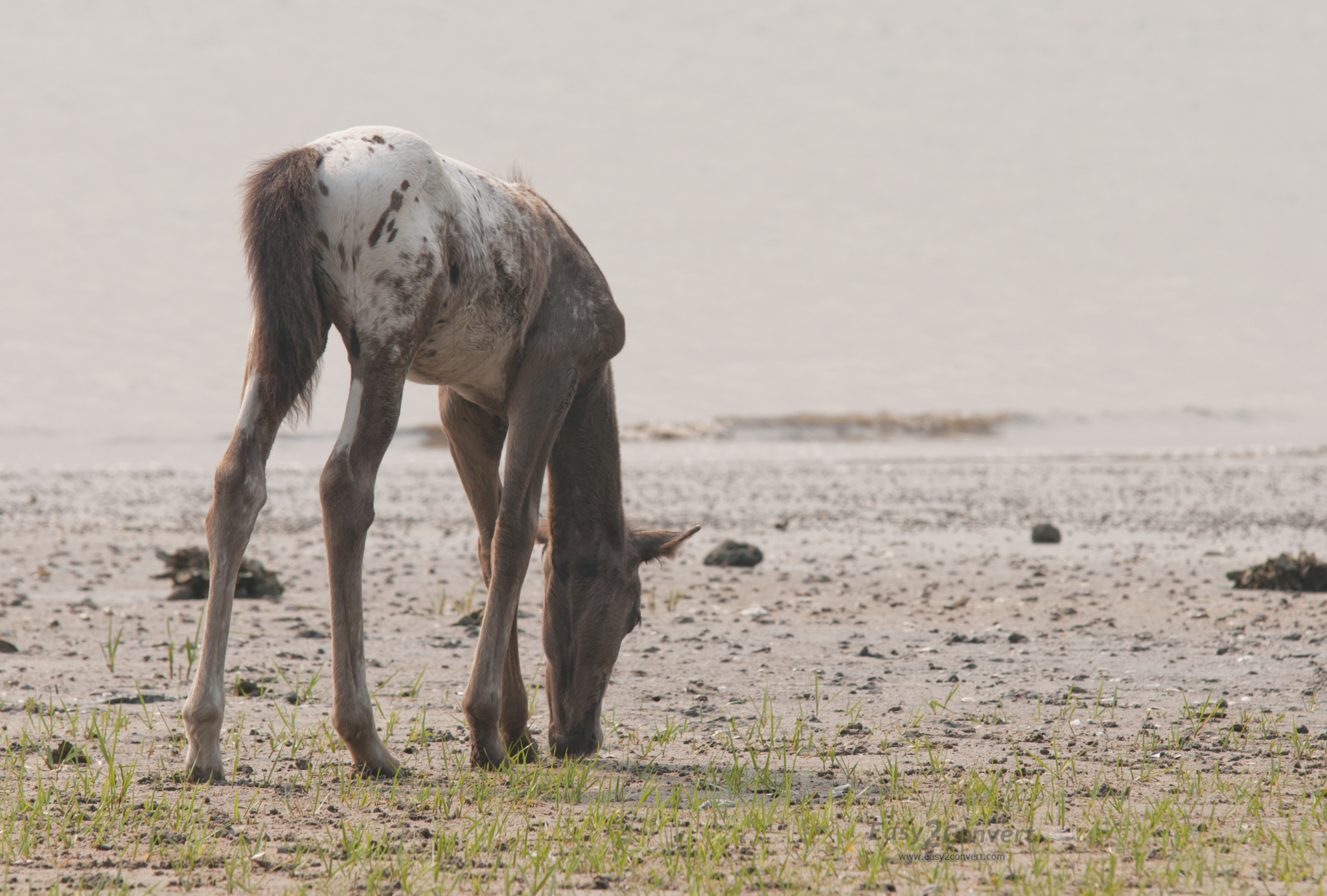 A feral appaloosa colt snacks on spartina at low tide at Cumberland Island National Seashore